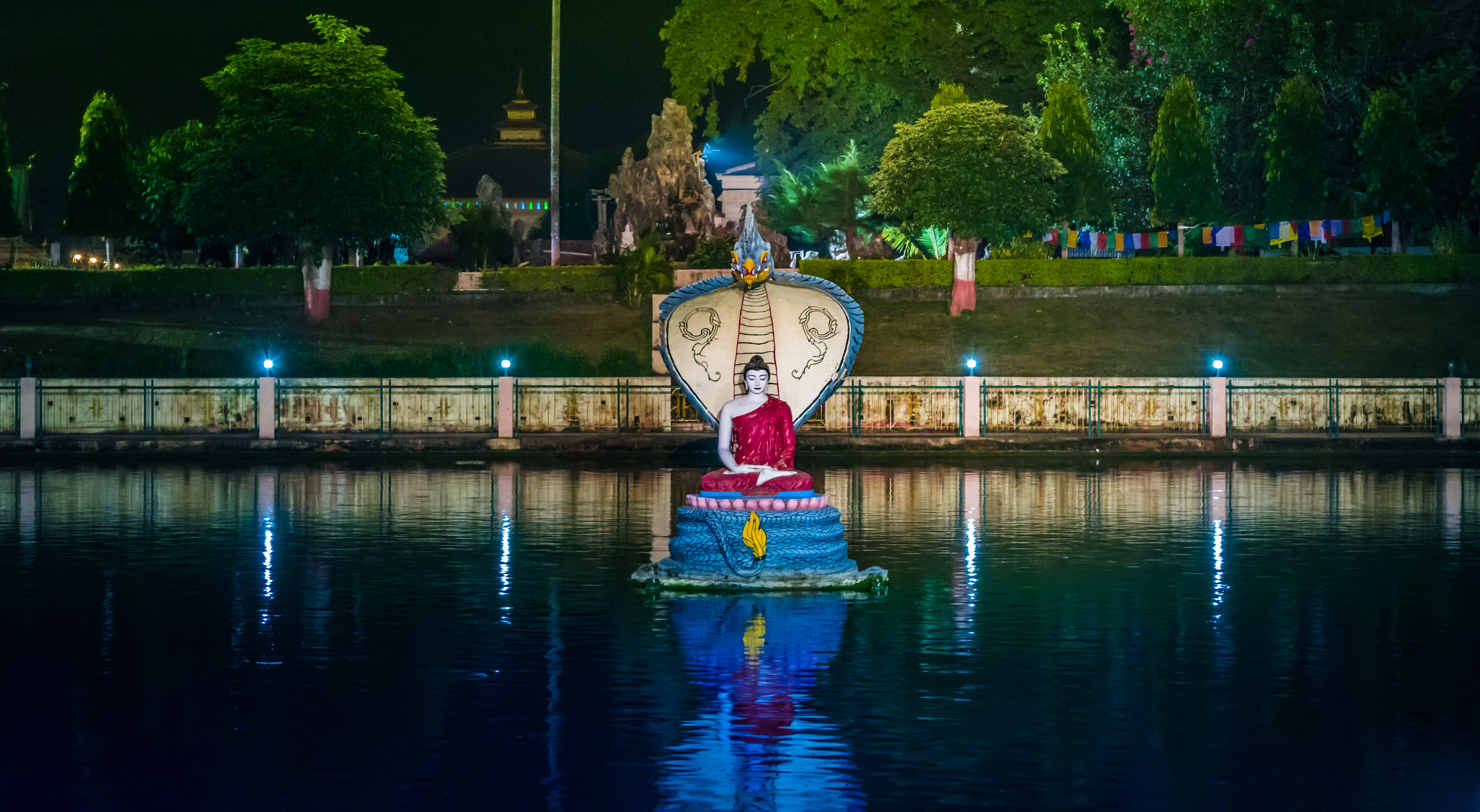 A statue of Mucalinda protecting the Buddha in Mucalinda Lake at Mahabodhi Temple, Bodh Gaya, India